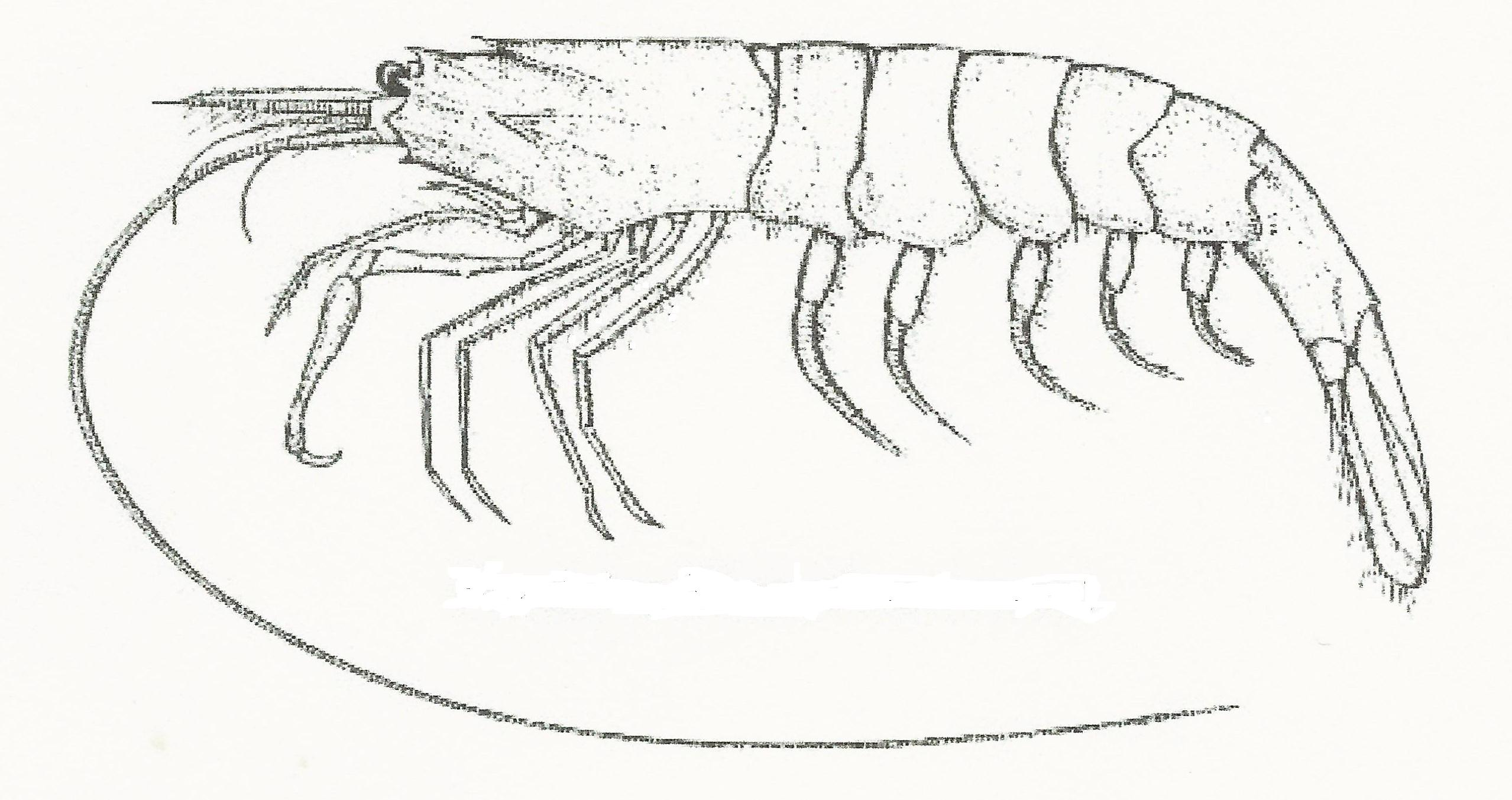 A drawing of Crangon franciscorum, the most common shrimp species in San Francisco Bay